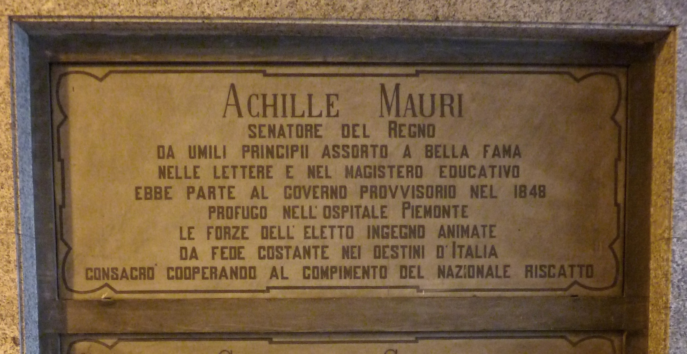 The grave of Italian politician Achille Mauri at the Monumental Cemetery of Milan, Italy.